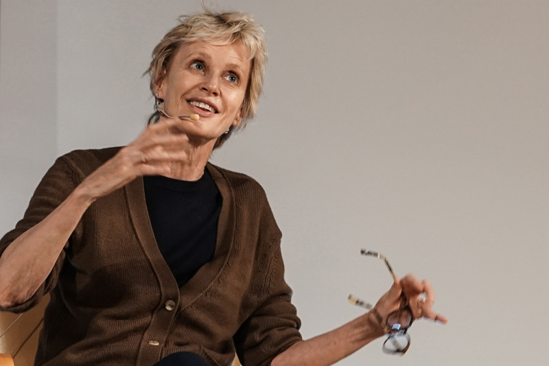 Siri Hustvedt at LitteratureXchange Festival in Aarhus (Denmark 2019)